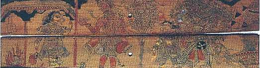 Folio from Vaidehisa Vilasa of Satrughna. "Sita in fire, kidnap of Maya Sita."